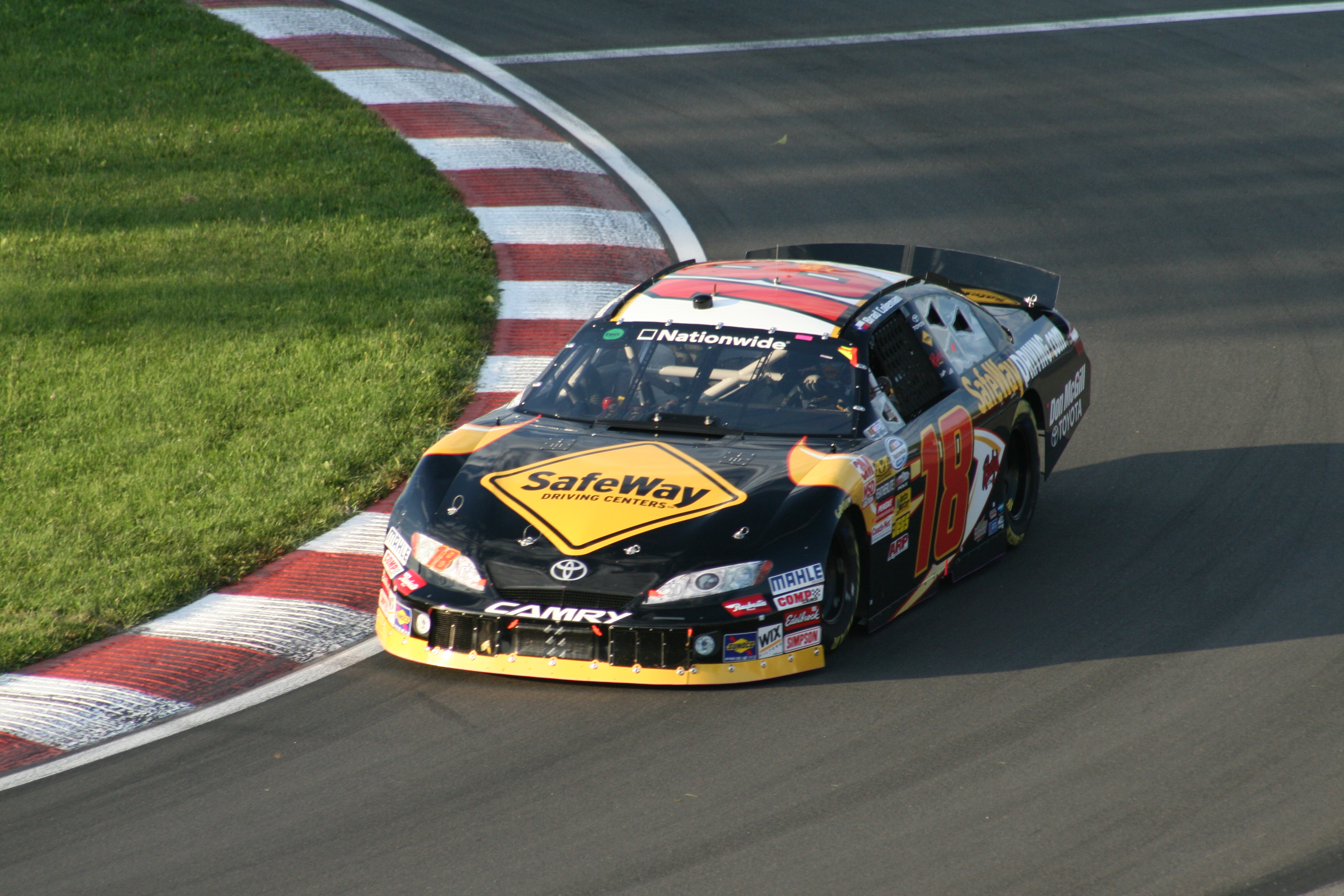 Brad Coleman in the qualification for the 2010 NAPA Auto Parts 200 at the Circuit Gilles Villeneuve in Montreal.